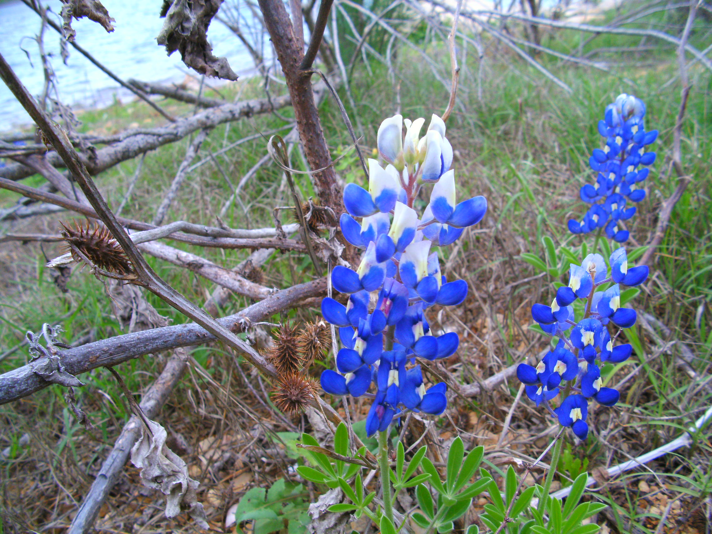 Bluebonnets at Ivie Reservoir, Texas